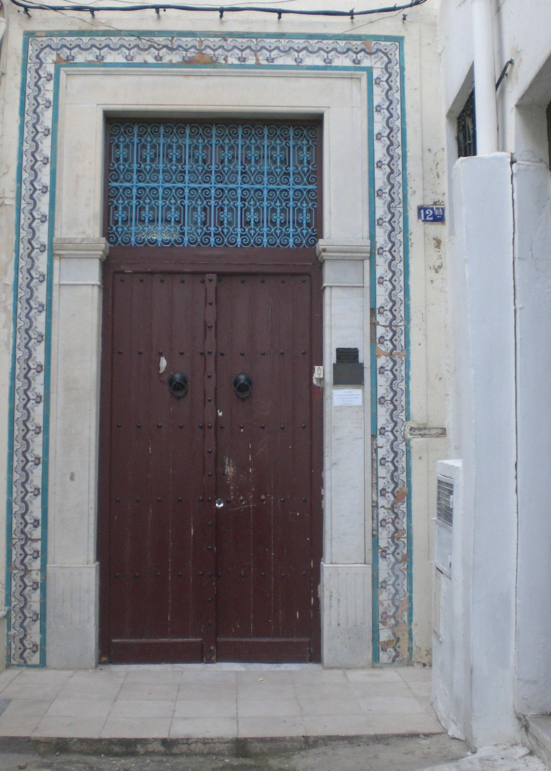 The IBLA institute-Tunis